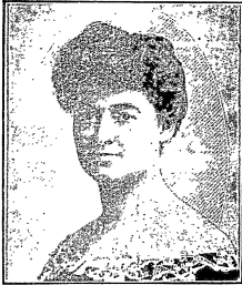 Portrait of Bina Deneen (1868-1950), wife of Illinois governor Charles Deneen, circulated nationwide following her husband's 1905 inauguration. This version from the Morning Olympian of July 9, 1905, page 3.